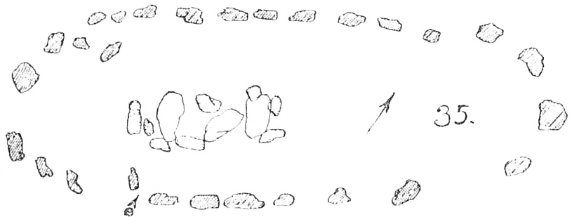 Outline of the dolmen Bretsch 1, Saxony-Anhalt